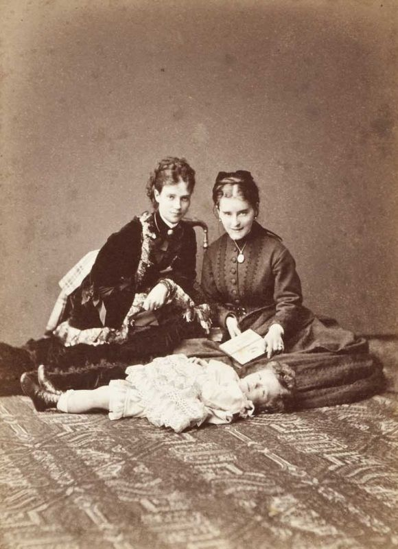 Maria Feodorovna with her son Nicholas and Princess Obolensky